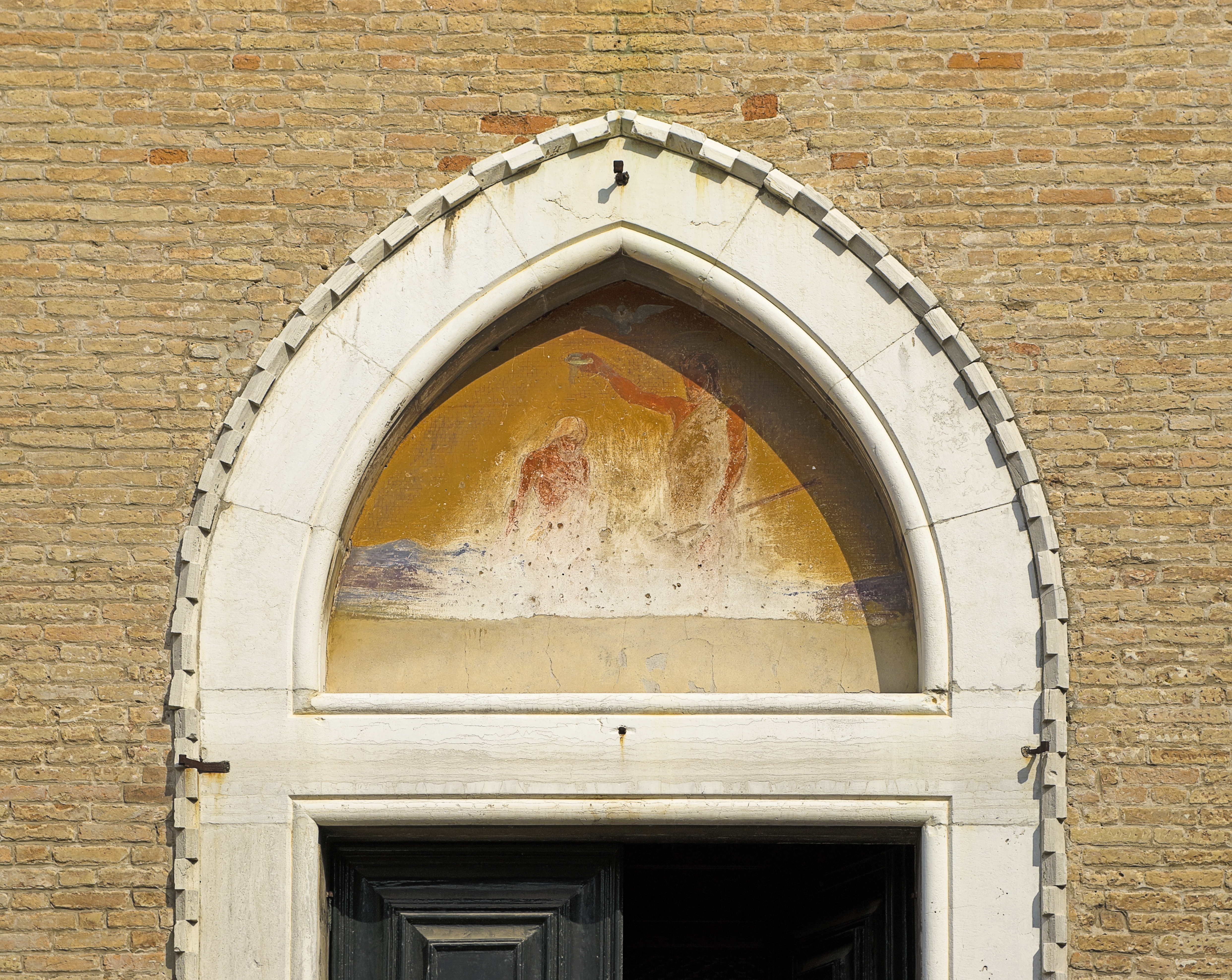 Church of San Giovanni in Bragora in Venice, particularity of tympanum of the main door : baptism of Jesus Christ